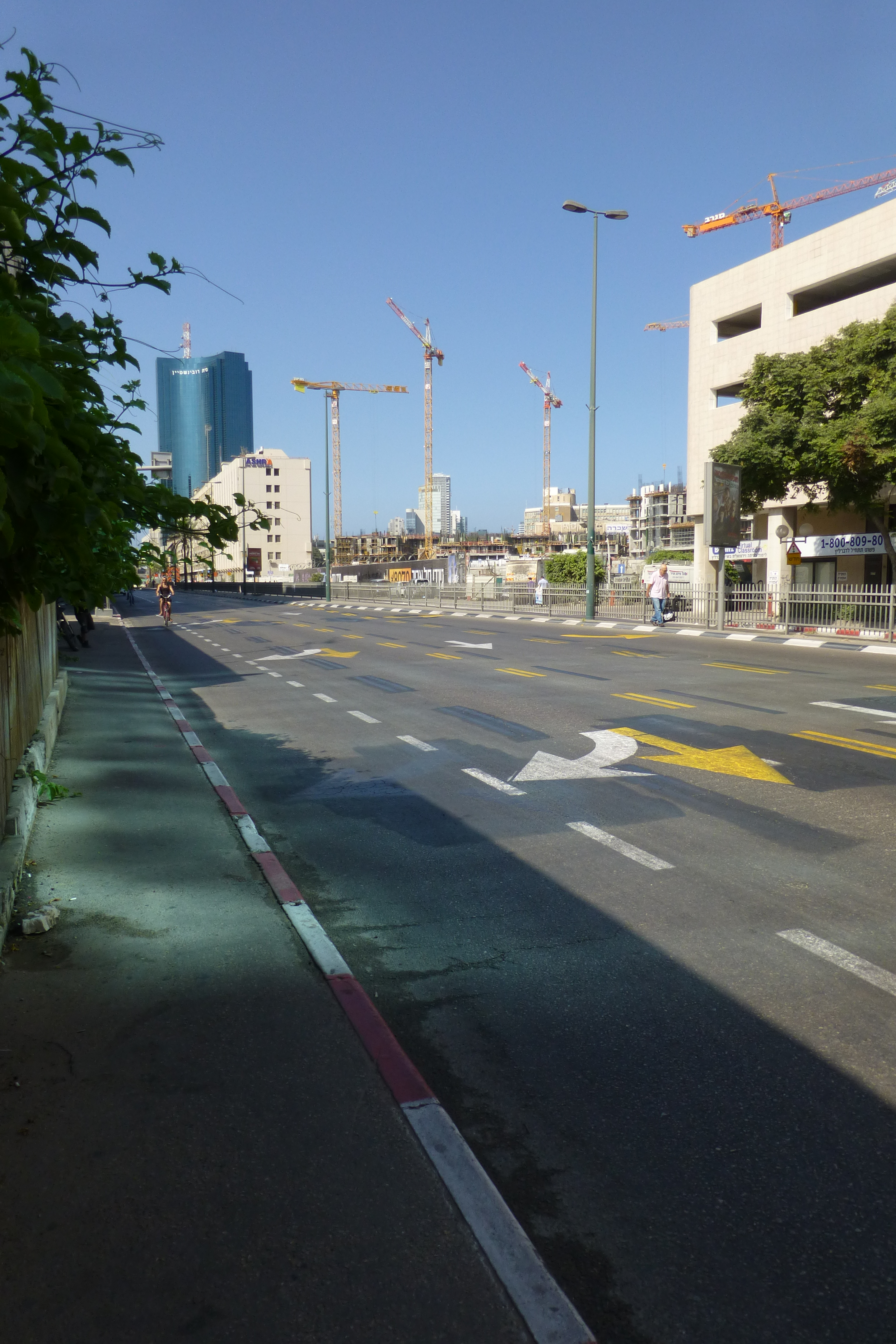 Begin Road, Tel Aviv-Yafo